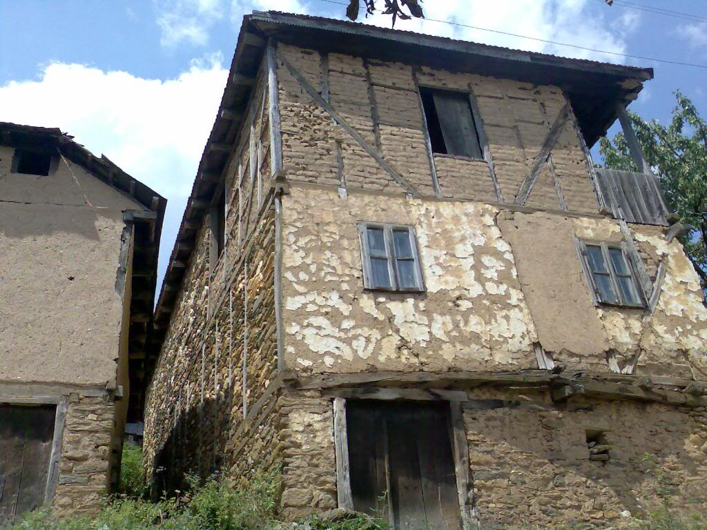 Village of Lupshte, Poreche region, Republic Macedonia